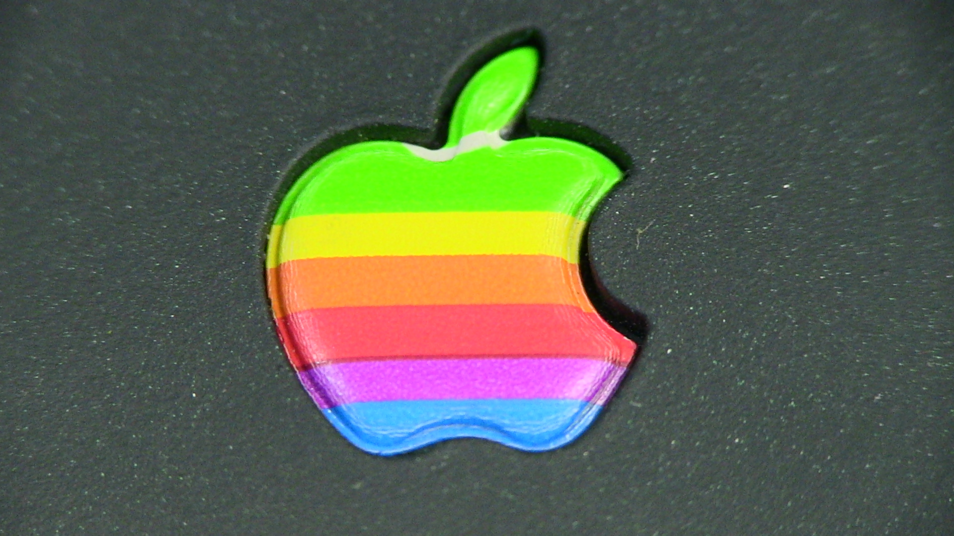 The original colour Apple logo on the Newton